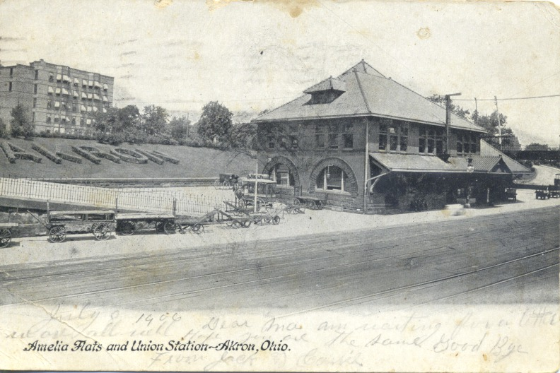 Persistent URL: Subject (TGM): Railroad travel; Railroad stations; Transportation; Ohio--Akron